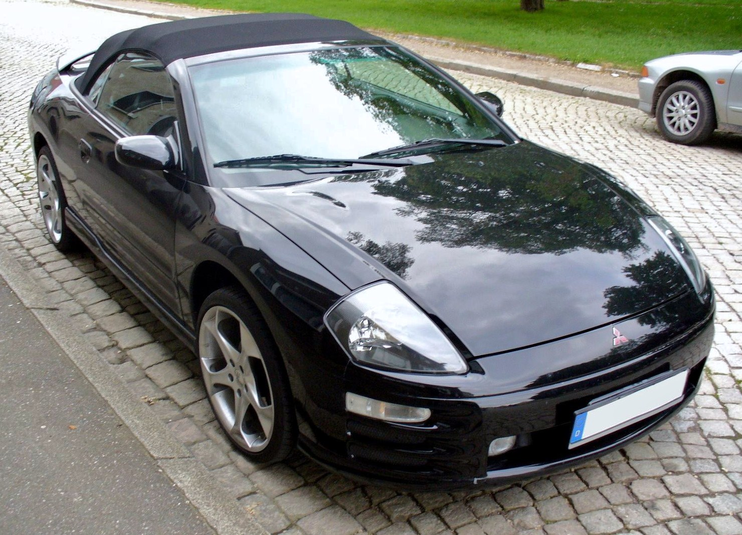 Mitsubishi Eclypse Spyder